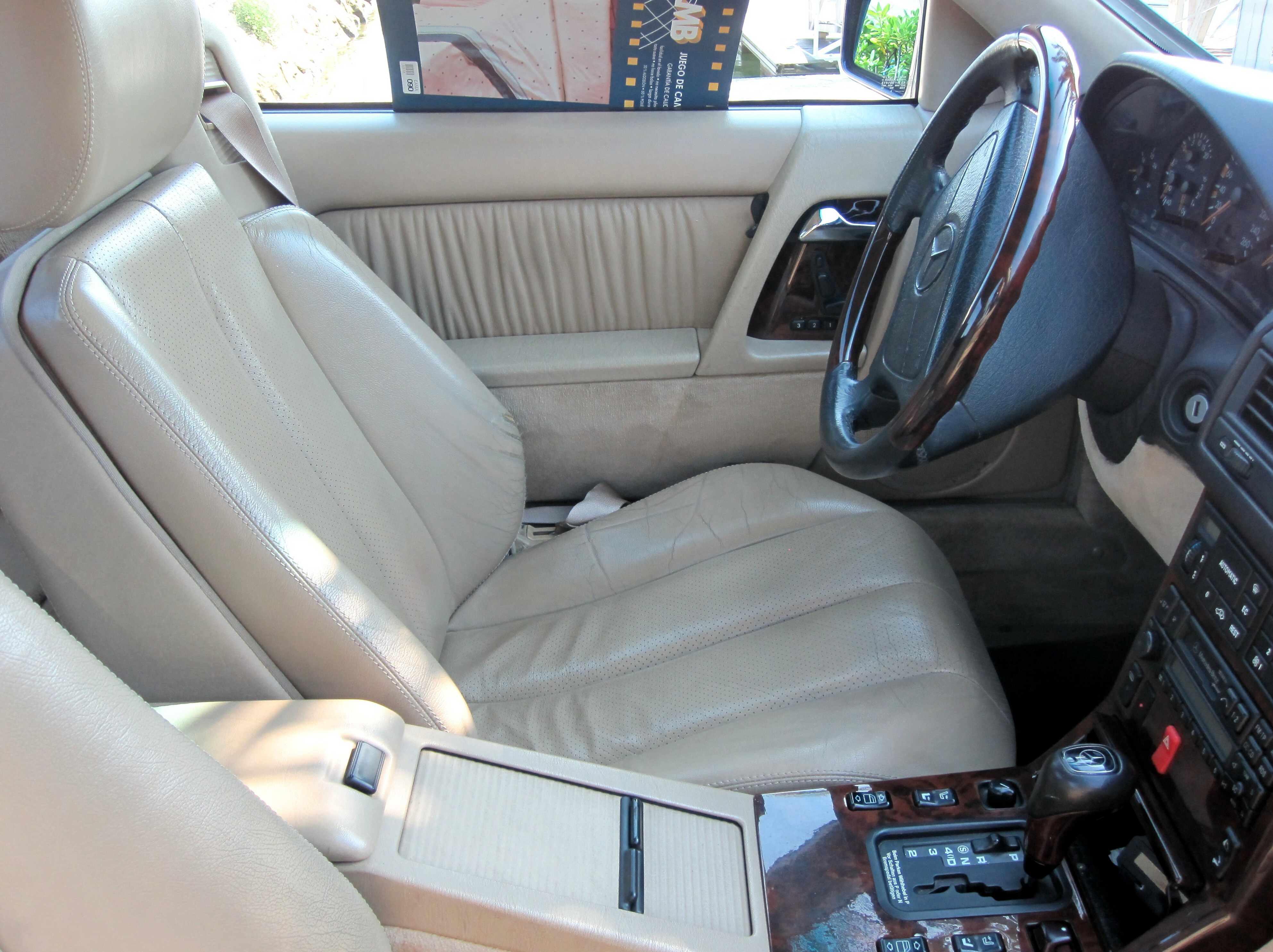 Love it...